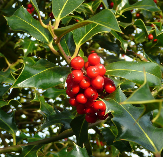 Ilex species; Common Holly. I noticed that the blackbird is starting on these now so there won't be any for Christmas!